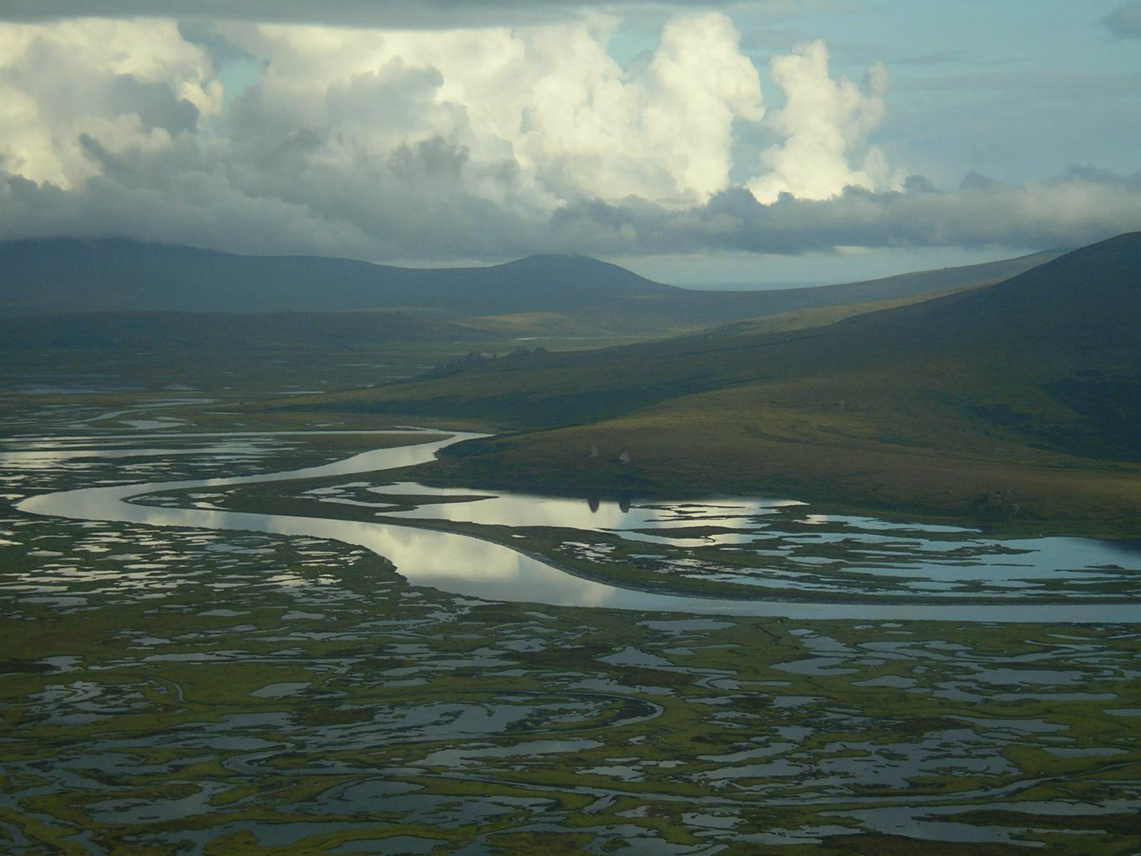 The two monoliths at the edge of the water can be see from Chevak on a clear day in winter. The mountain ends on the Bering Sea near the village of Scammon Bay.